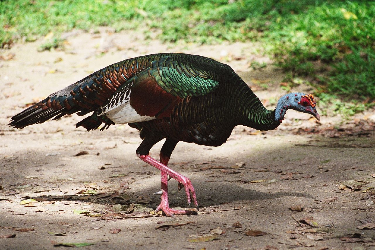 A male Ocellated Turkey in Guatemala. Spurs indicate that this is a male.